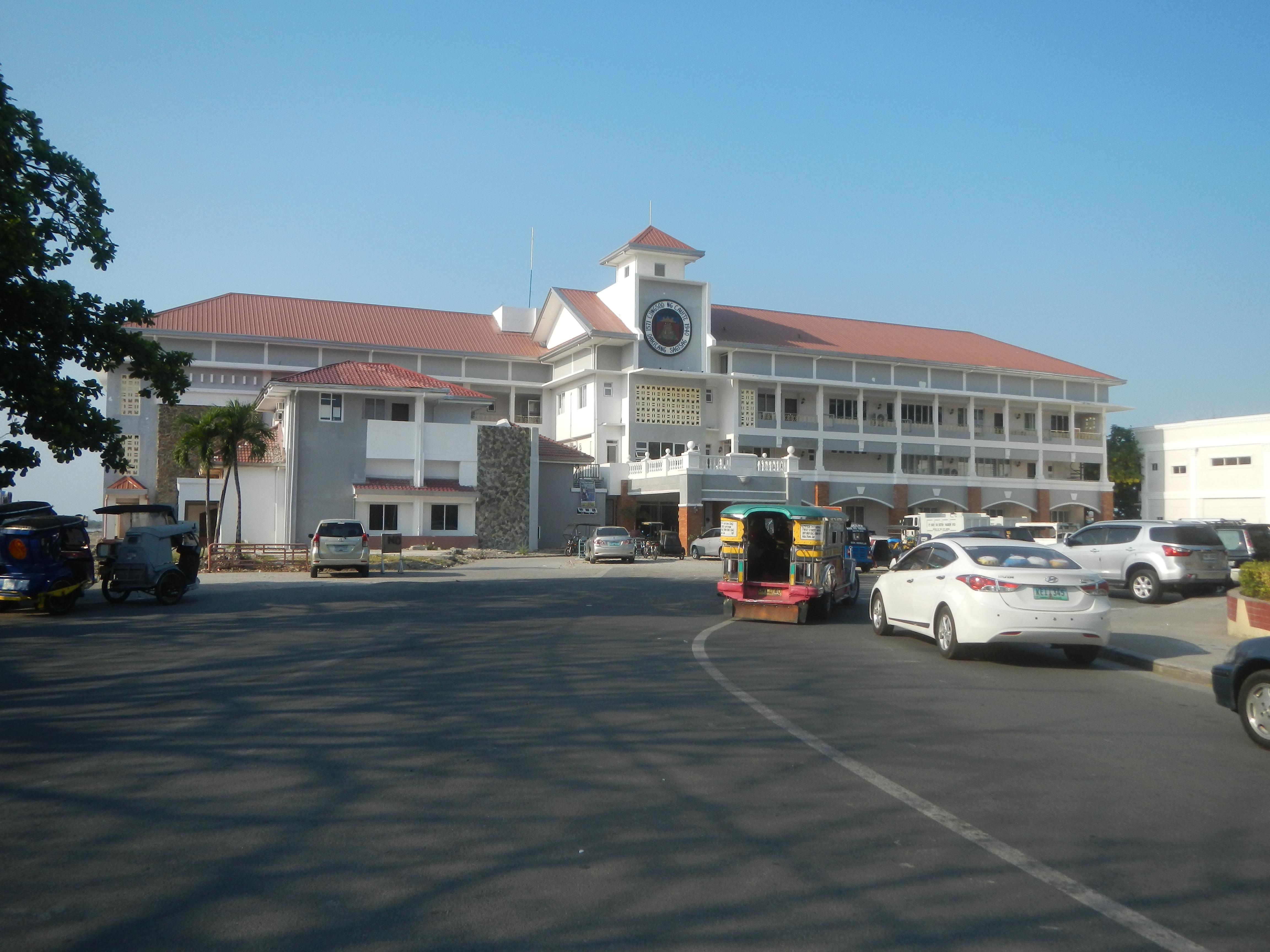 New Cavite City Hall Cavite City clock tower Cavite City Port and Navy Yard - Bacoor Bay Cavite City Hall of Justice Negosyo Center Cavite City Cavite City park and children's playground Jose Rizal monuments in Cavite City Barangays 61-A (Talong A; Poblacion) & 62-A (Kangkong A; Poblacion), Cavite City from Dalahican Manila-Cavite Road Cavite City along Bacoor Bay Category:Barangays of Cavite Barangays Barangay 61-A (Talong A; Poblacion) 14.4802, 120.9036 Barangay 62-A (Kangkong A; Poblacion), Cavite City 14.4823, 120.9128 Cavite City N62 highway (Philippines) Philippine highway network (Note: Judge Florentino Floro, the owner, to repeat, Donor Florentino Floro of all these photos hereby donate gratuitously, freely and unconditionally Judge Floro all these photos to and for Wikimedia Commons, exclusively, for public use of the public domain, and again without any condition whatsoever).